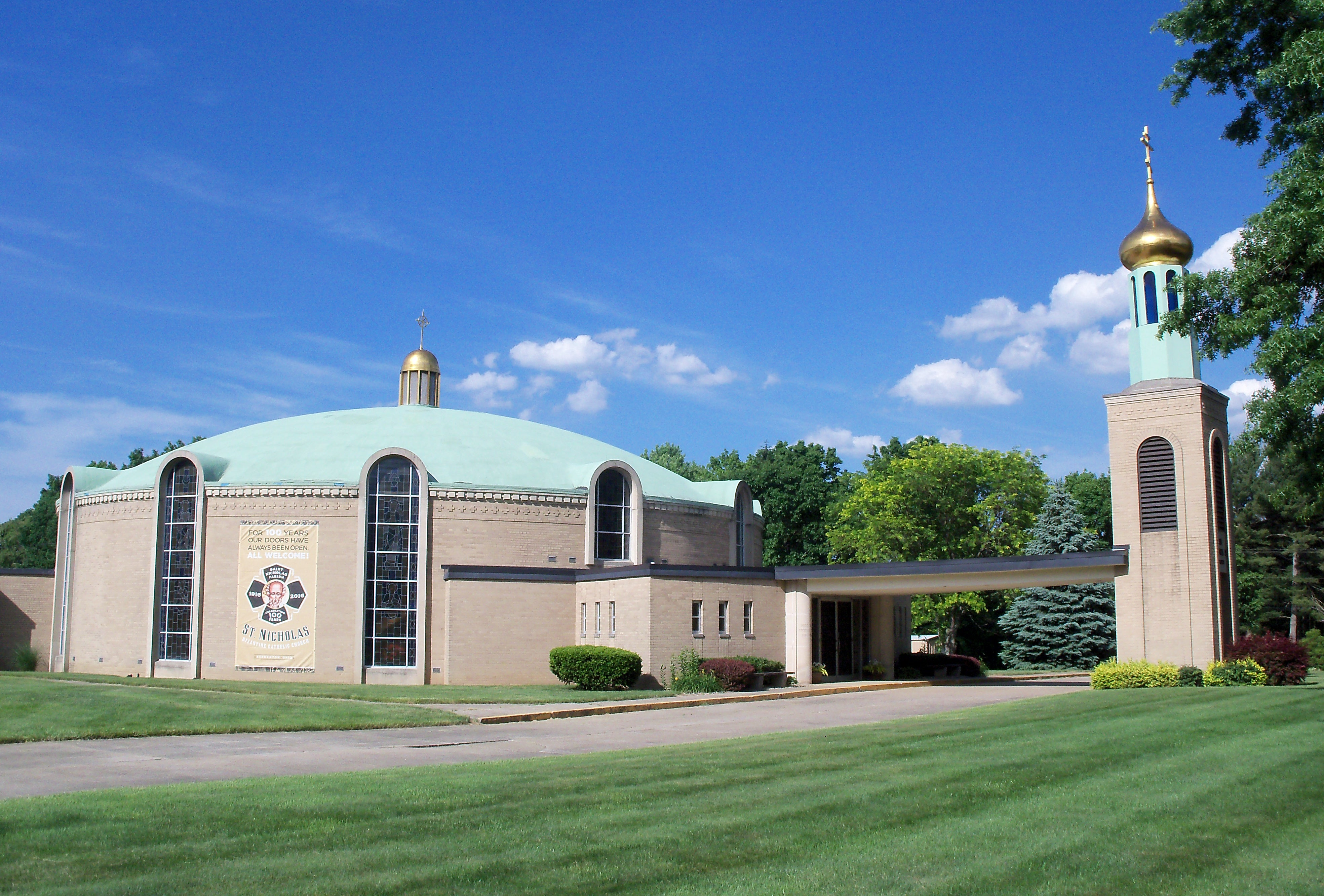 Saint Nicholas Byzantine Catholic Church was founded 1916 in Barberton, Ohio and moved to this building in Coventry Township, Summit County, Ohio in 1965.